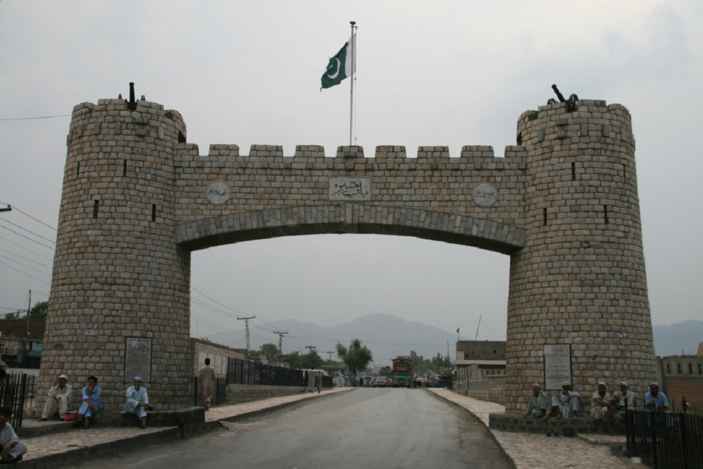 Khyber Gate on Jamrud Road looking west bound towards Afghanistan.